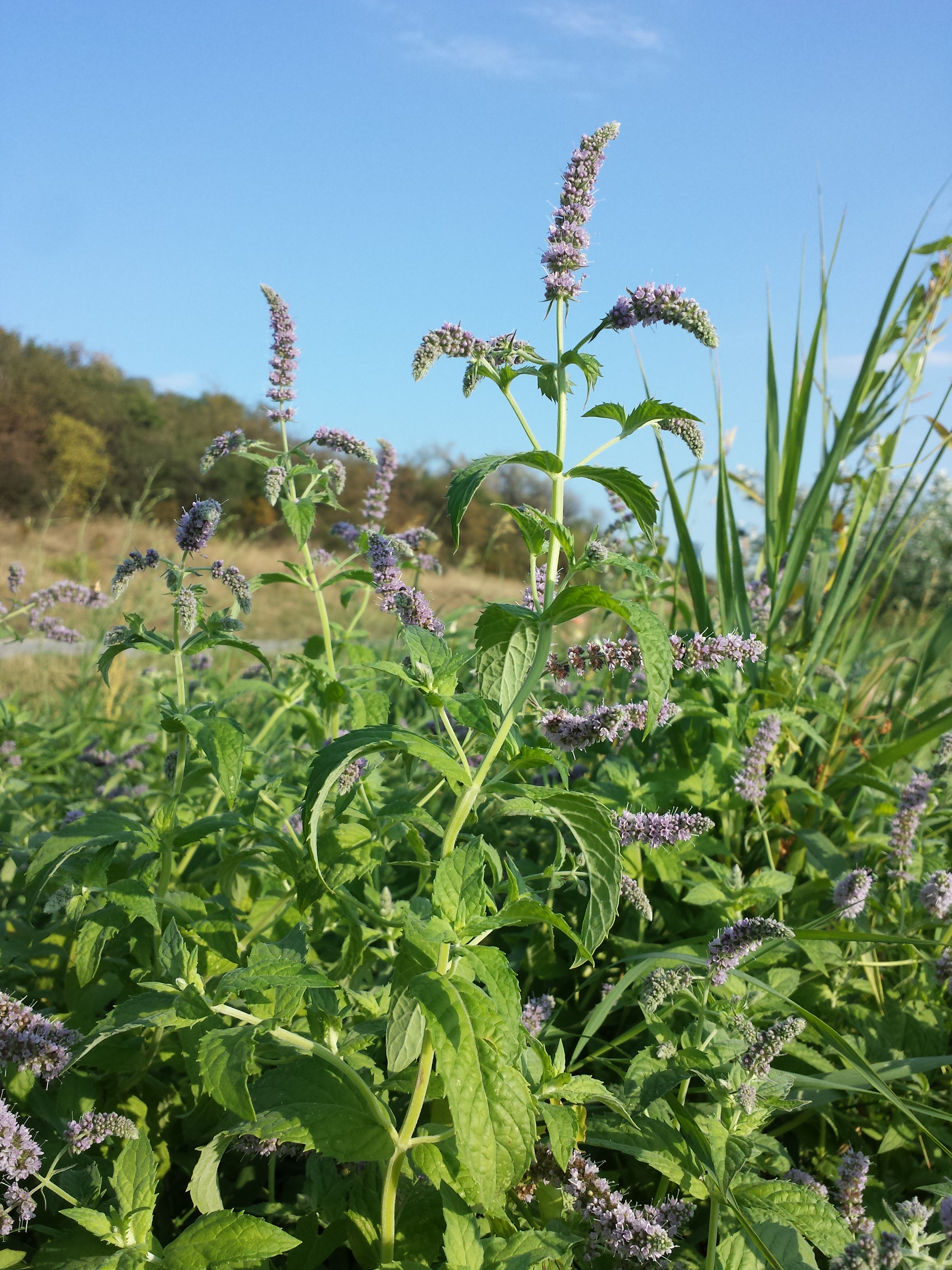 Habitus Taxonym: Mentha longifolia ss Fischer et al. EfÖLS 2008 ISBN 978-3-85474-187-9 Location: Neue Donau, Vienna-Floridsdorf - ca. 160 m a.s.l. Habitat: low meadow